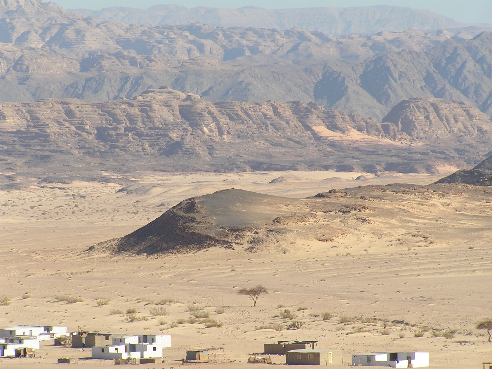 Sinai mountains landscape